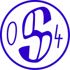 Logo Schalke